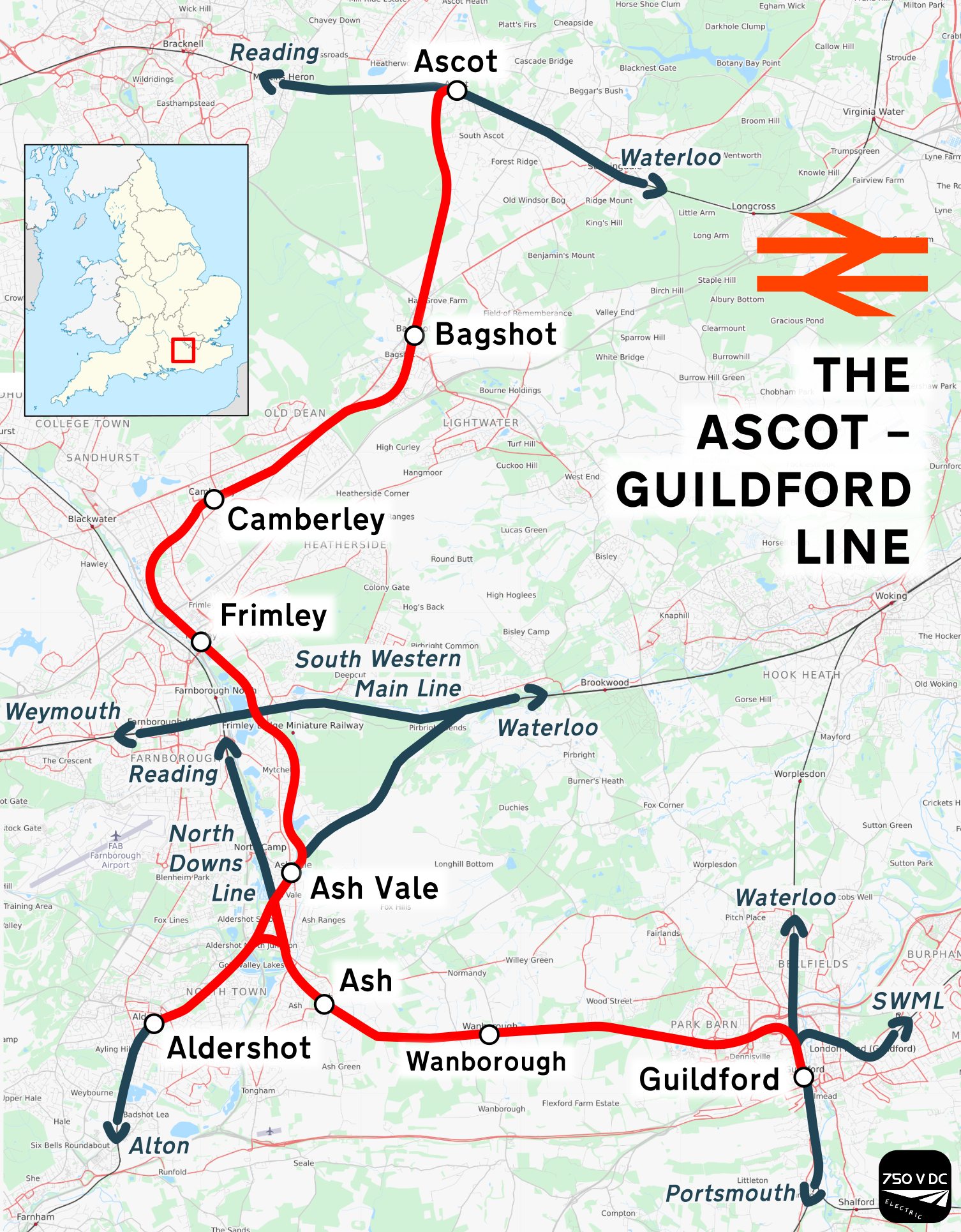 The Ascot-Guildford line This map may be incomplete, and may contain errors. Don't rely solely on it for navigation.